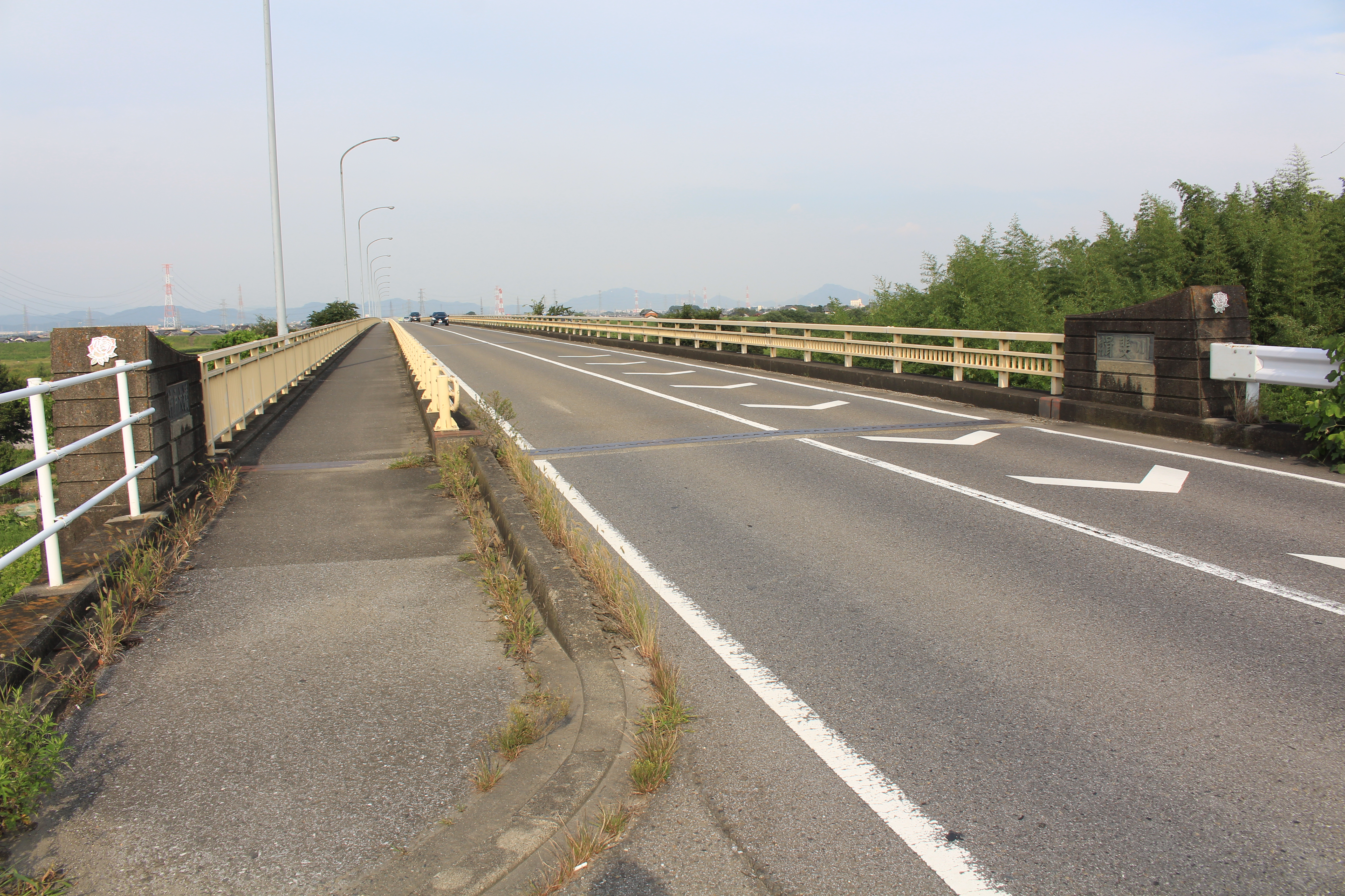 Gōdo Bridge (Gōdo-ōhashi) of Gifu Prefectural Road Route 212 over Ibi River in Gōdo, Gifu prefecture, Japan.